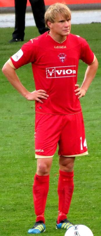 Photo - Slovak footballer Peter Orávik